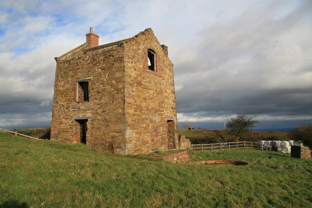 Penrhos Engine House, near to Brymbo, Wrexham/Wrecsam, Wales. Scheduled Ancient Monument. This is a beam pumping engine house of c1794, probably for a Hornblower engine. The colliery was opened by John Wilkinson. The engine house was later converted to a cottage.